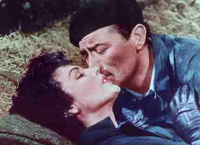 Screenshot of Ava Gardner and Gregory Peck from the film The Snows of Kilimanjaro